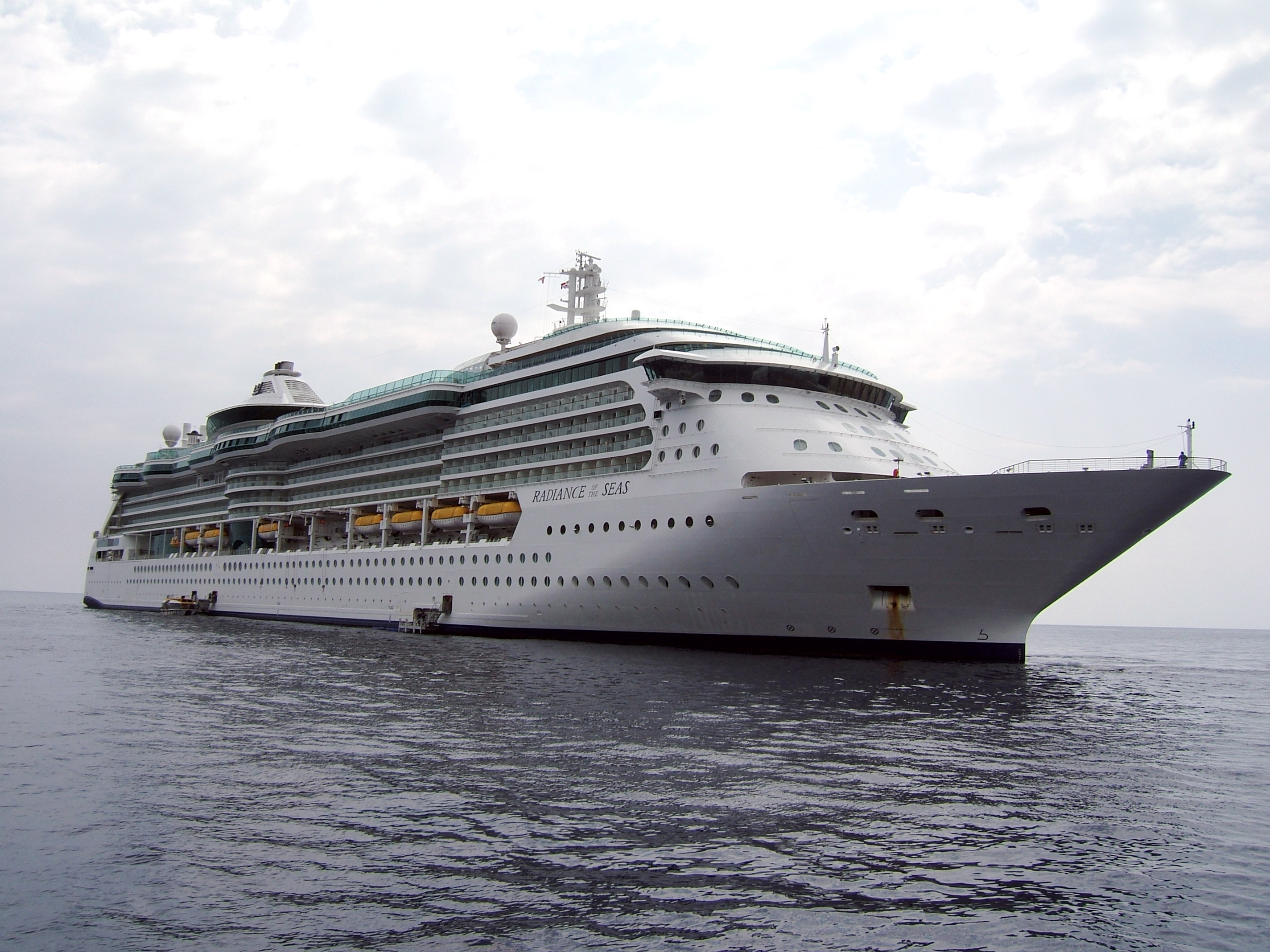 Radiance of the Seas in Hawaii